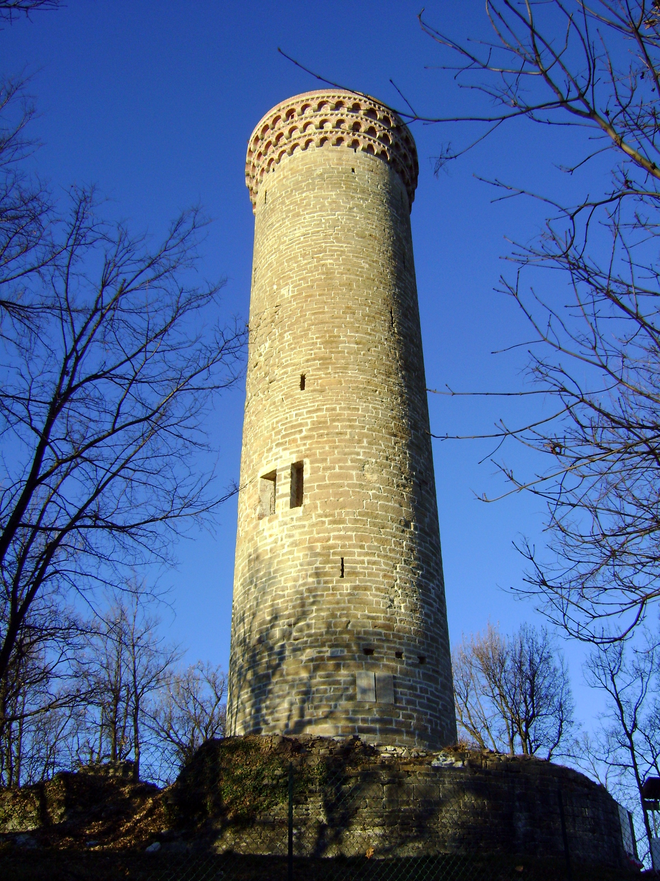 Castellino Tanaro's tower (Italy)